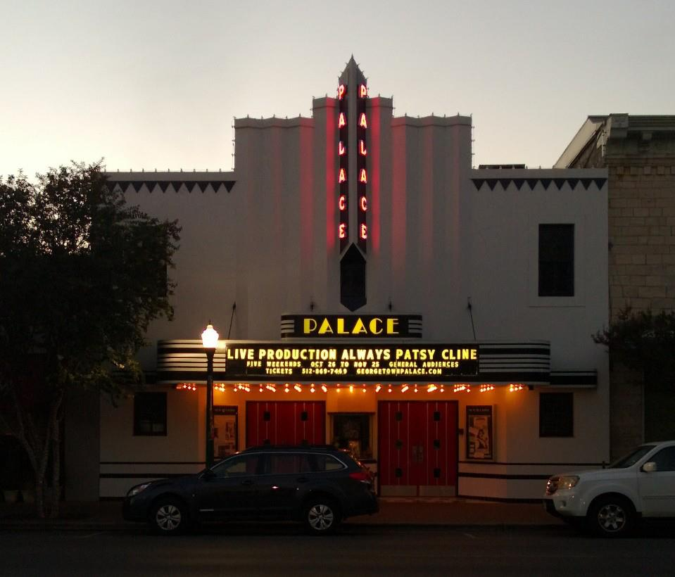 This is a picture of the Palace Theater in Georgetown Texas.